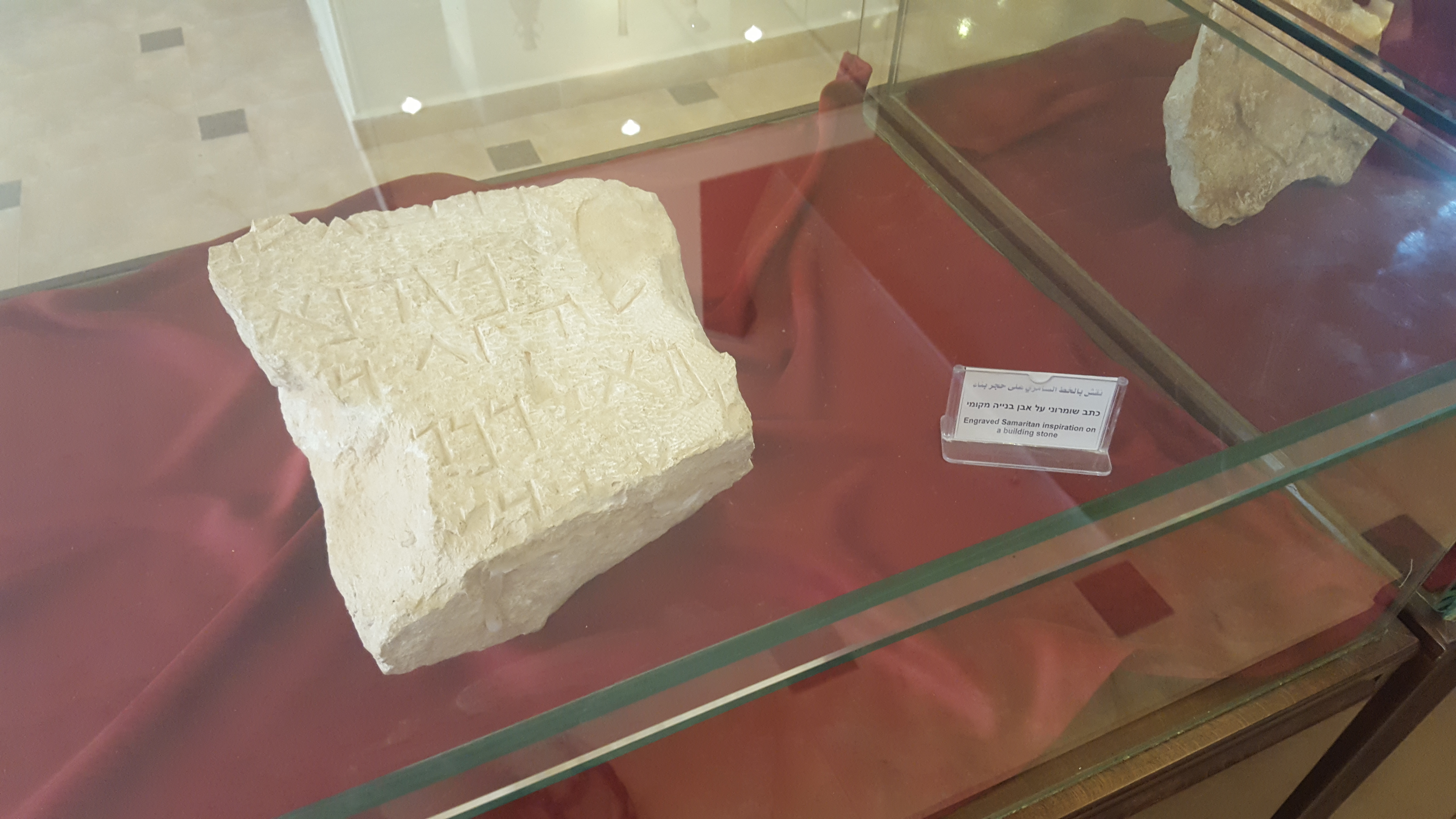 Engraved Samaritan inspiration on a Buliding stone, The photo was taken in the Samaritan museum, Nablus, West Bank.